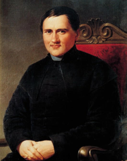 Luigi Caburlotto - priest of the archdiocese of Venice, founder of Daughters of Saint Joseph of Venice, Blessed